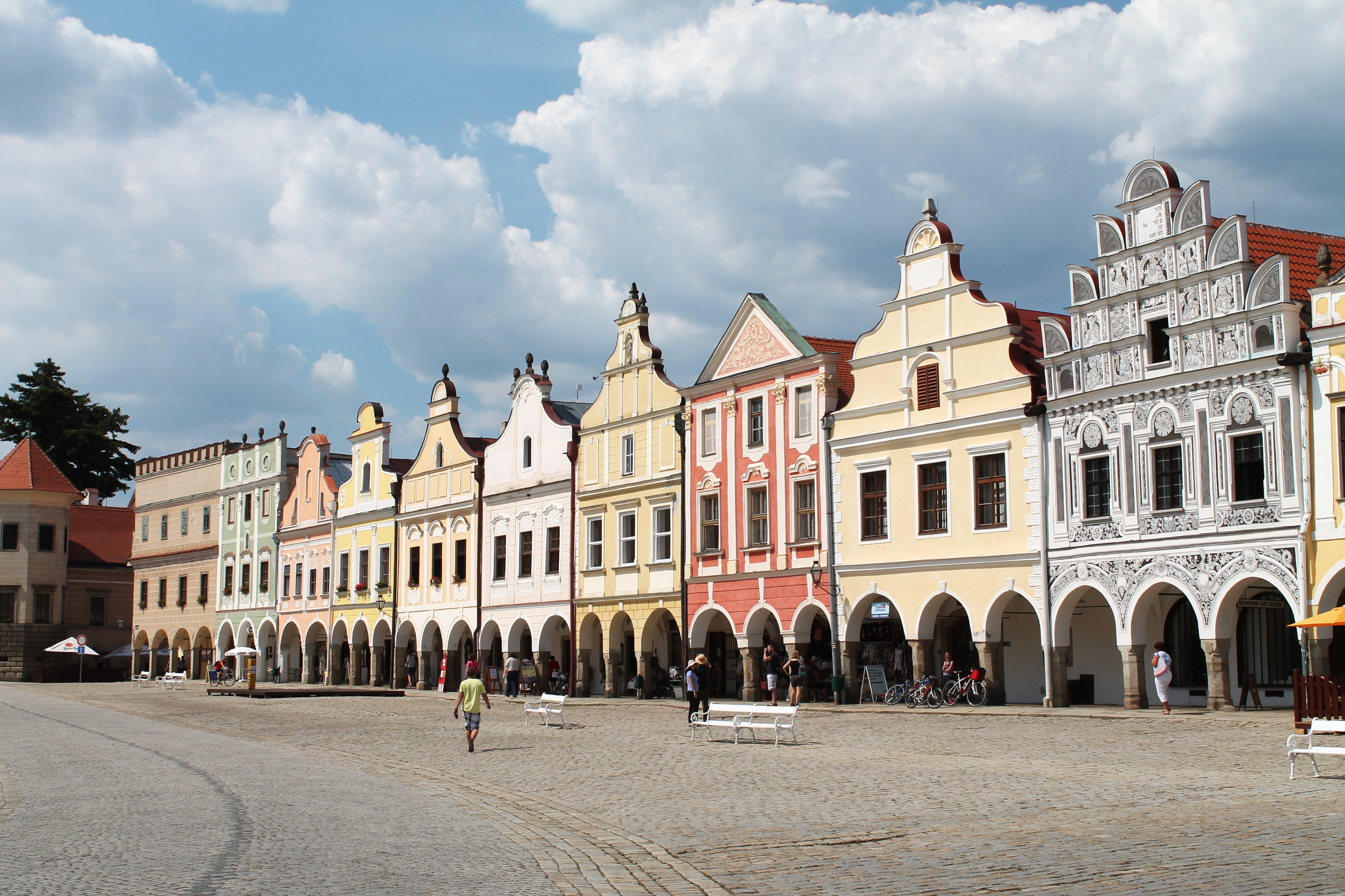 Telč, Jihlava District, Czech Republic - OpenStreetMap (Info)